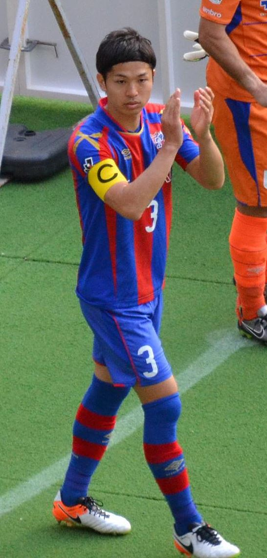 Masato Morishige after the Tamagawa Clasico - the match between FC Tokyo and Kawasaki Frontale - played at Ajinomoto Stadium 16th April 2016.